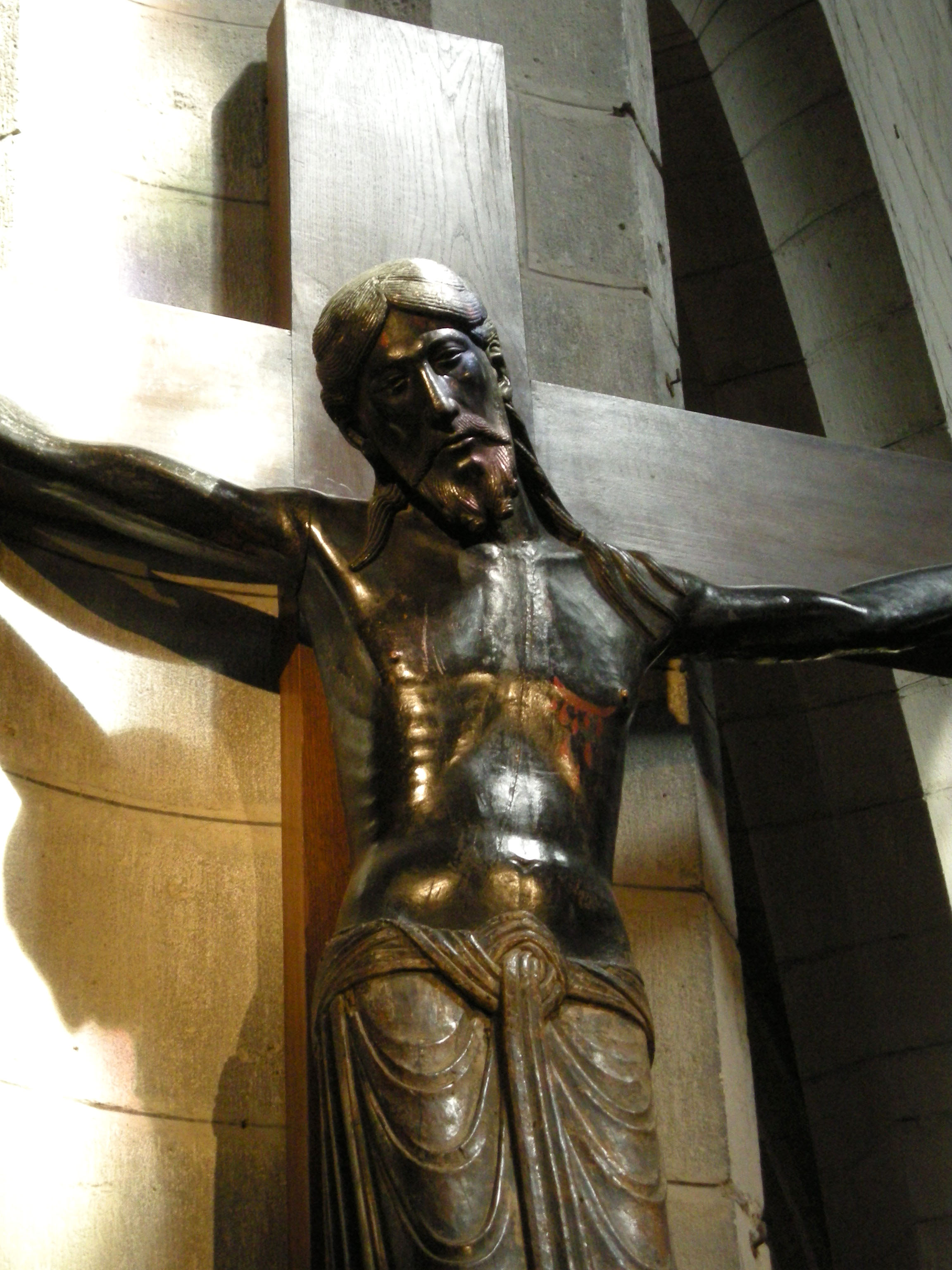 Black Christ (XIIIth century) in Saint-Flour Cathedral